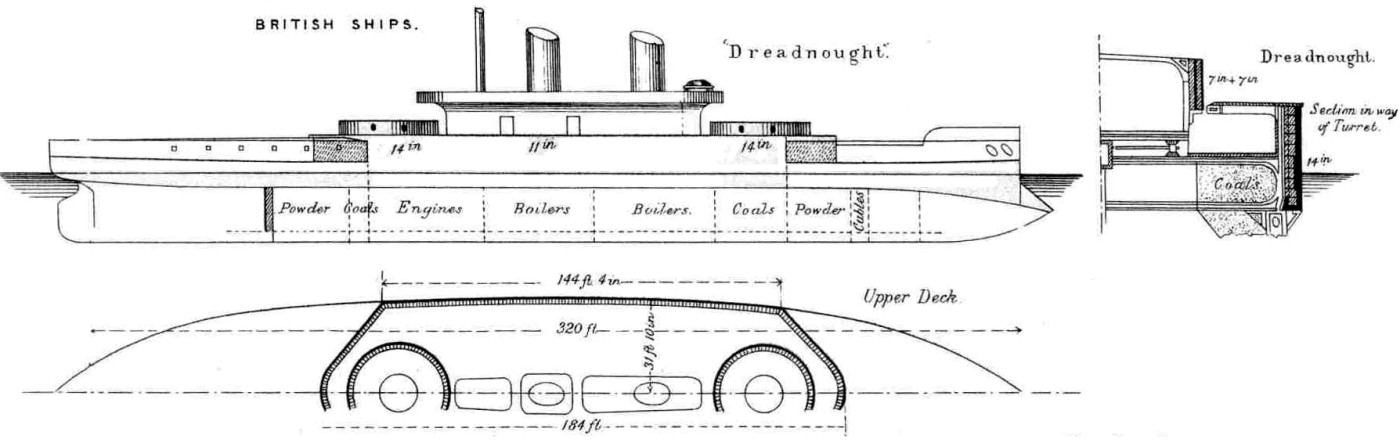 Diagrams showing right elevation, deck plan and hull cross-section of British ironclad turret battleship HMS Dreadnought.